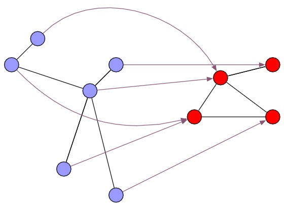 An example of homomorphism between two graphs, which is neither a coloration or an isomorphism.